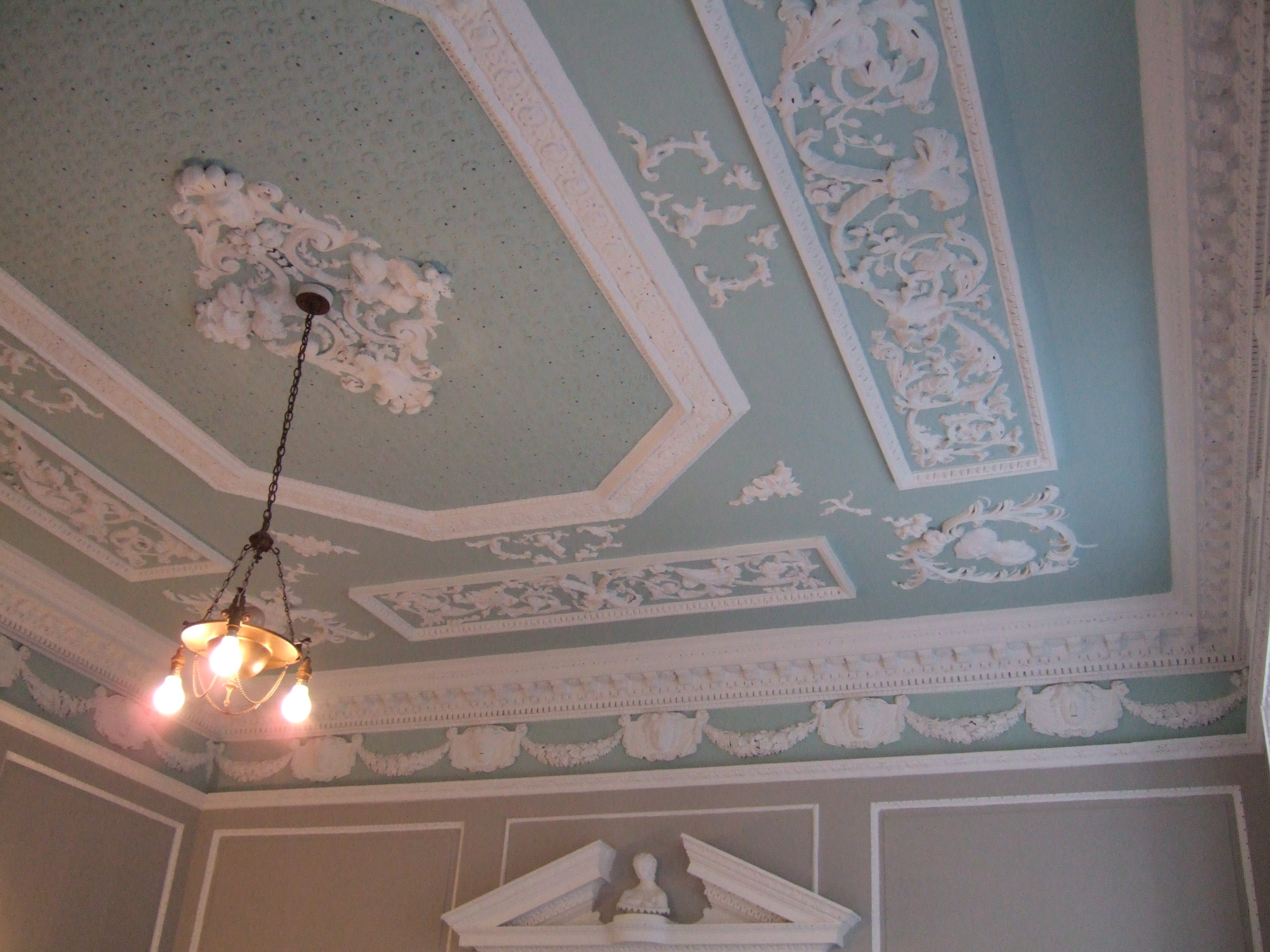 The Bastard Study, in the Bastard House, Blandford Forum. The house is now used by Age Concern. The room is open on one day a year, the first Monday in May during the annual Georgian Fayre at Blandford. The room is otherwise used as a storeroom by Age Concern.